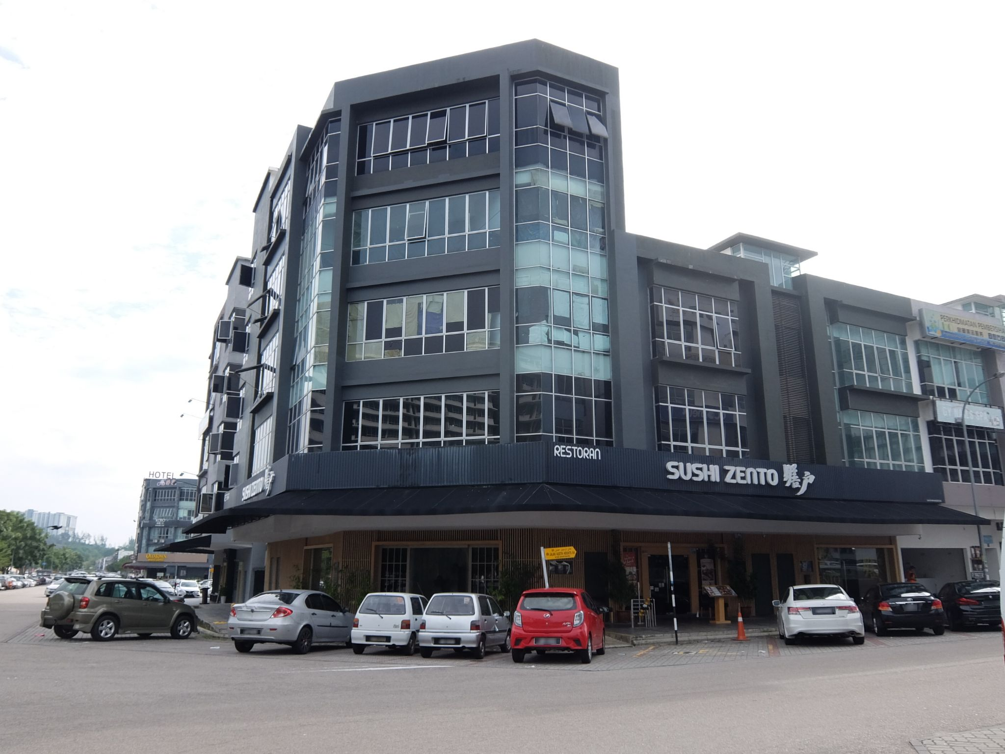 Sushi Zento, Mount Austin, Johor Bahru, Johor, Malaysia